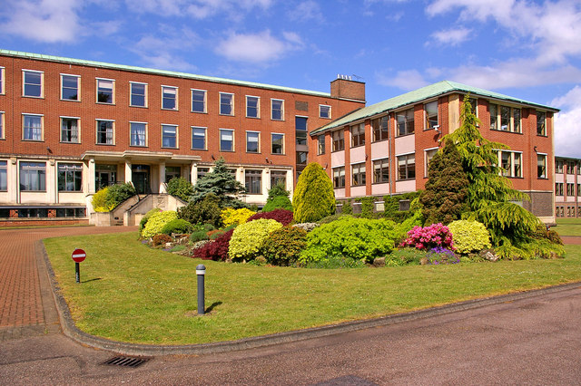 Pixham End – Friends Provident Building – opened in 1957